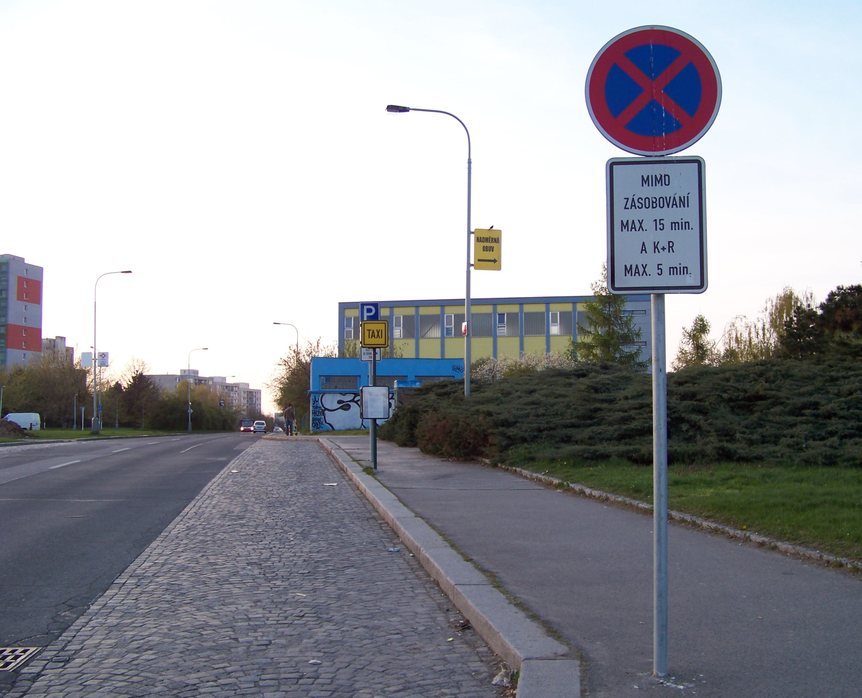 Háje, Prague, the Czech Republic. Háje Housing Estate, U modré školy street. Kiss and Ride stand and taxicab stand.